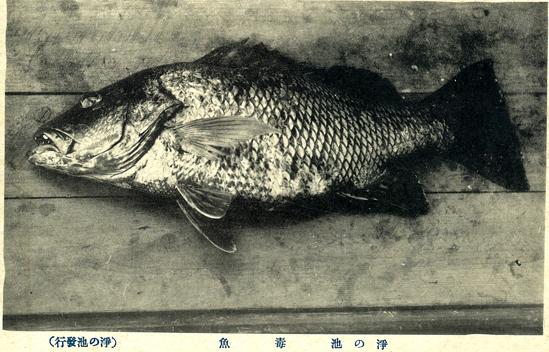 Jono-ike pond postcard. Black tail snapper Old photographs